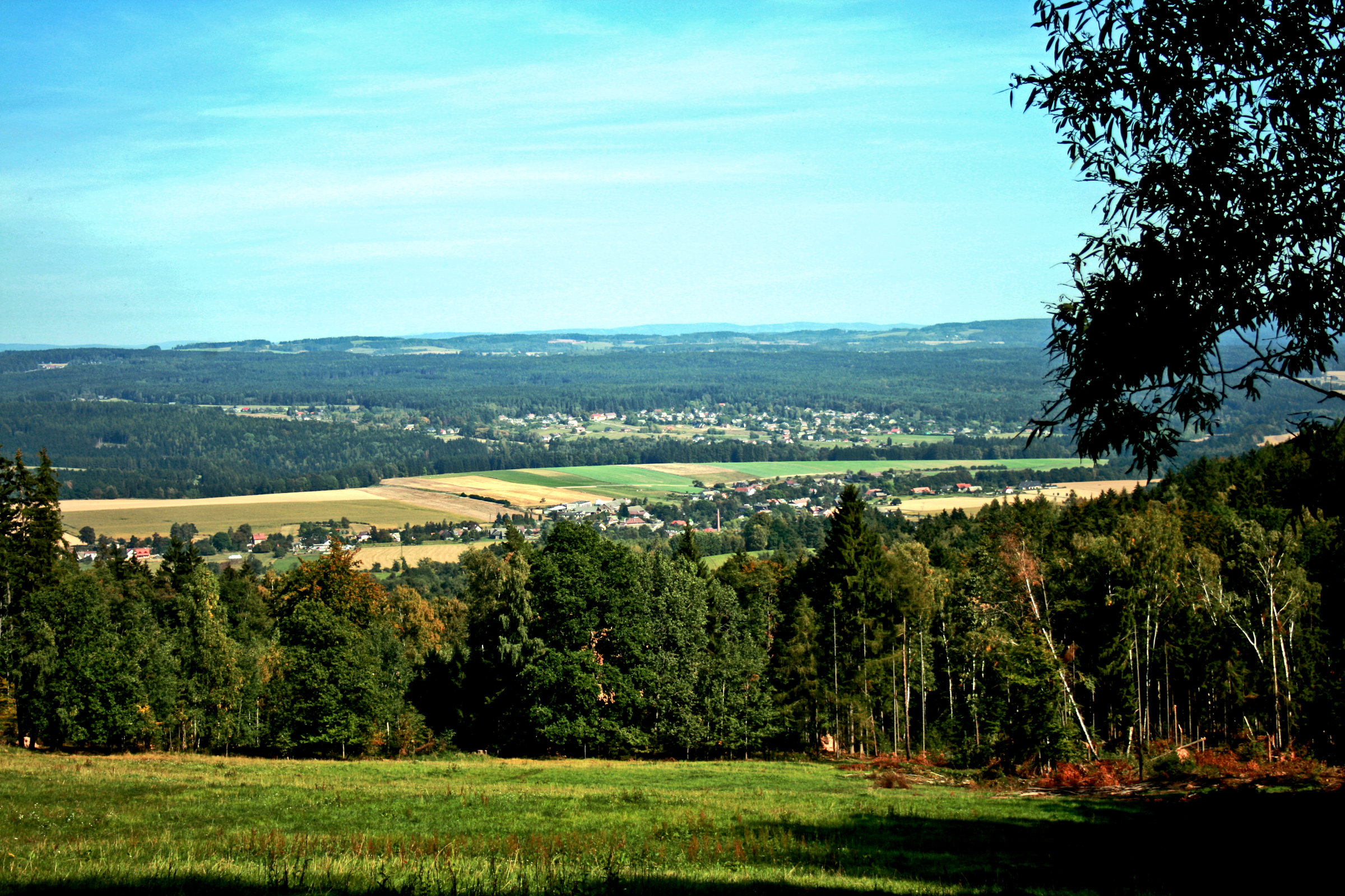 View from the hill Zvičina in east Bohemia, Czech Republic